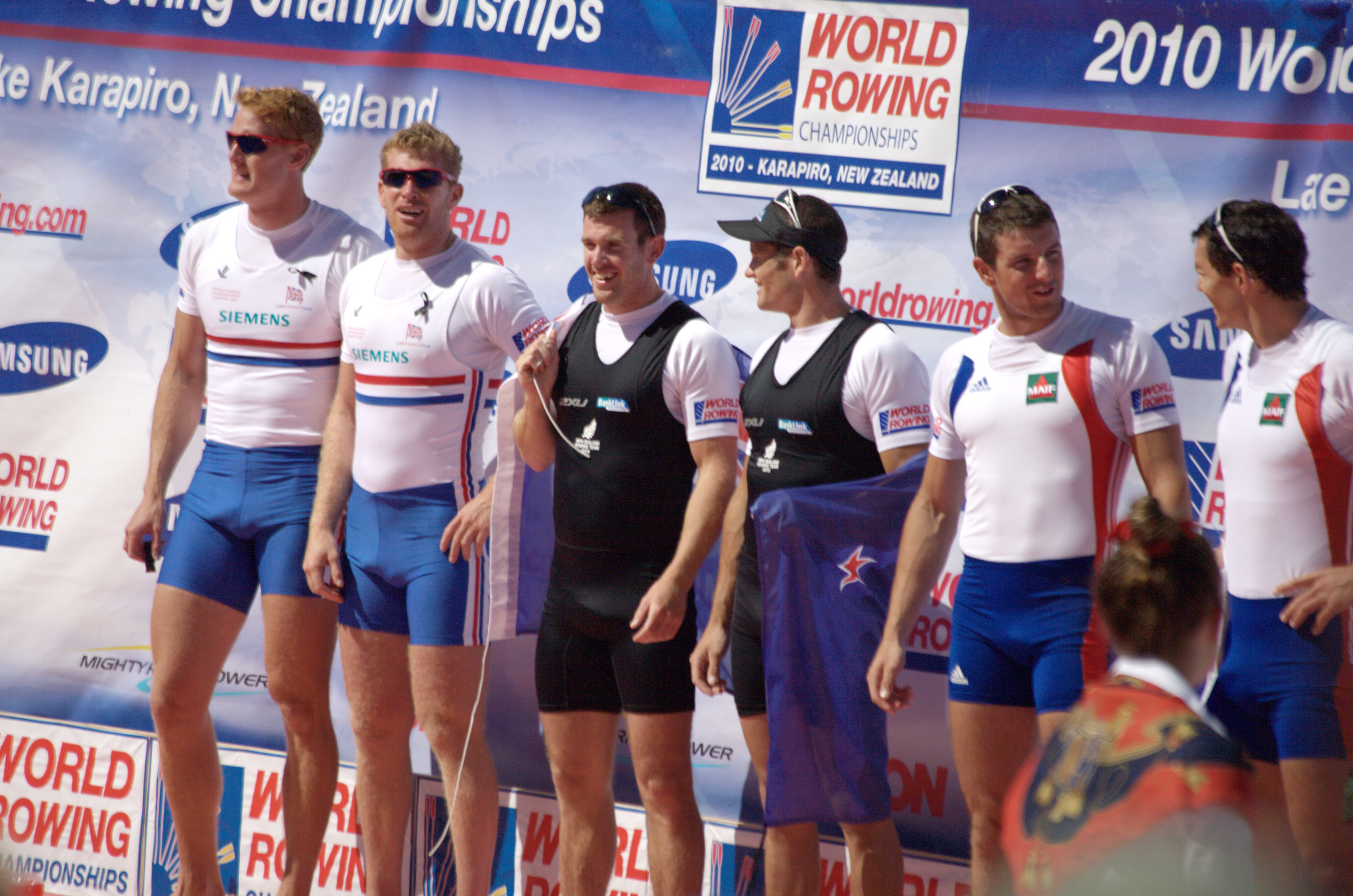 Gold: NZ, silver: GB; bronze: France 2010 World Rowing Championships.